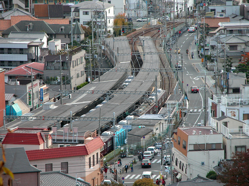 Hankyu Mino-o Station.